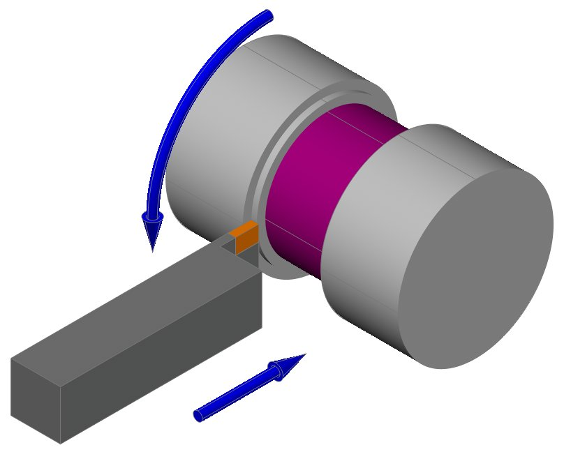 Grooving; cutting a radial groove into the circumference of a round workpiece